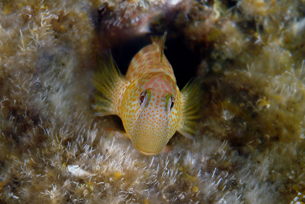 Female Lipophrys canevae photographed near Tuscany coasts. Photo by Stefano Guerrieri